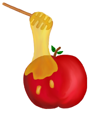 An apple with honey for Rosh haShana